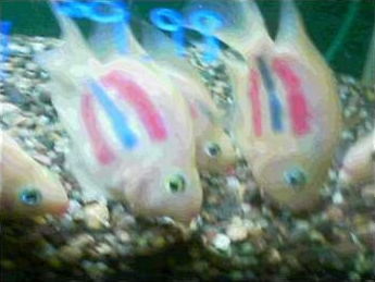 Blood parrot cichlids from a pet shop in Fairmount, New York. The fish was painted (or dyed) and labelled "Tattoo Parrot Cichlids".